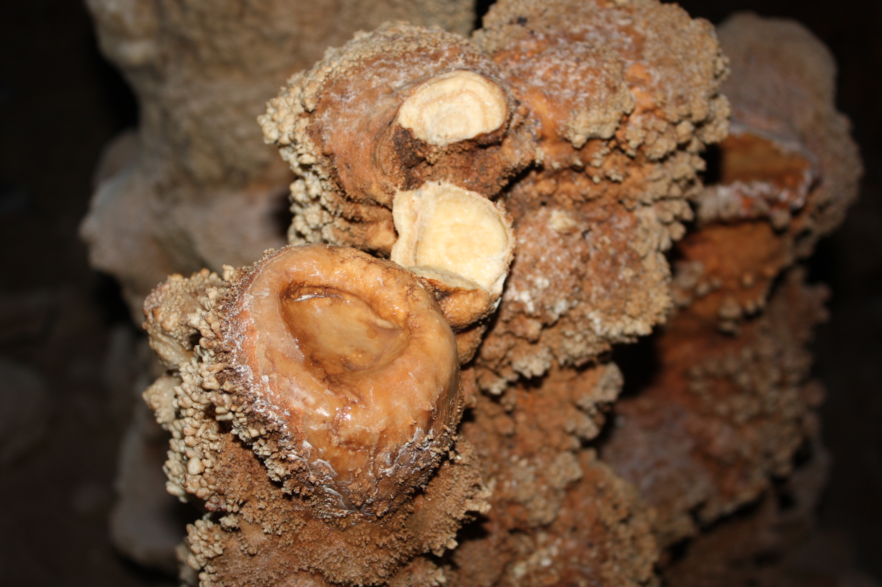 This is a photo of a calcite formation.